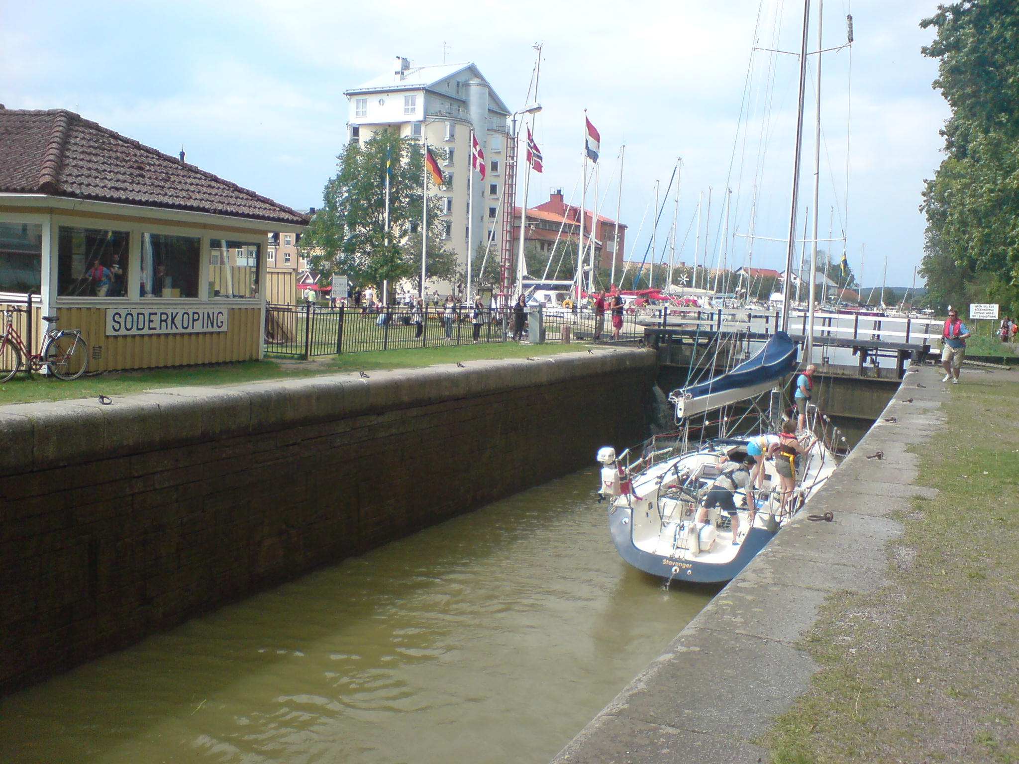 Photo of Söderköpings locks on the Göta Canal. The boat in the picture running against Mem